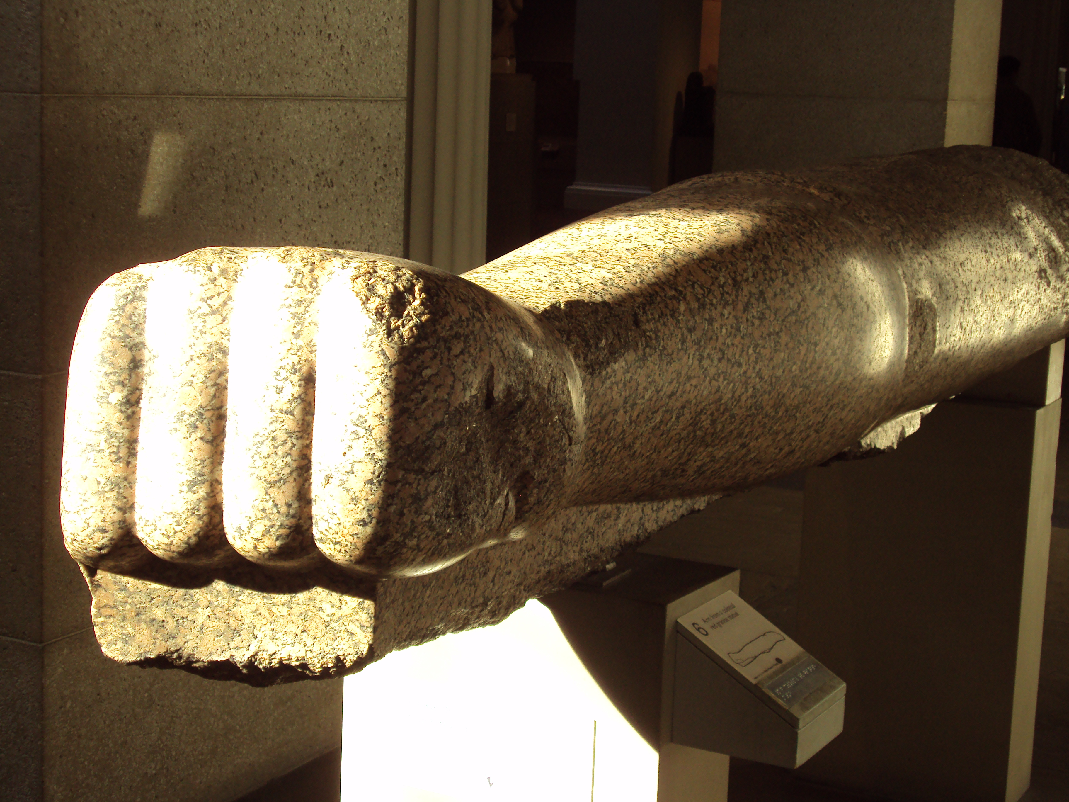 Stone arm and fist inside the British Museum, London.